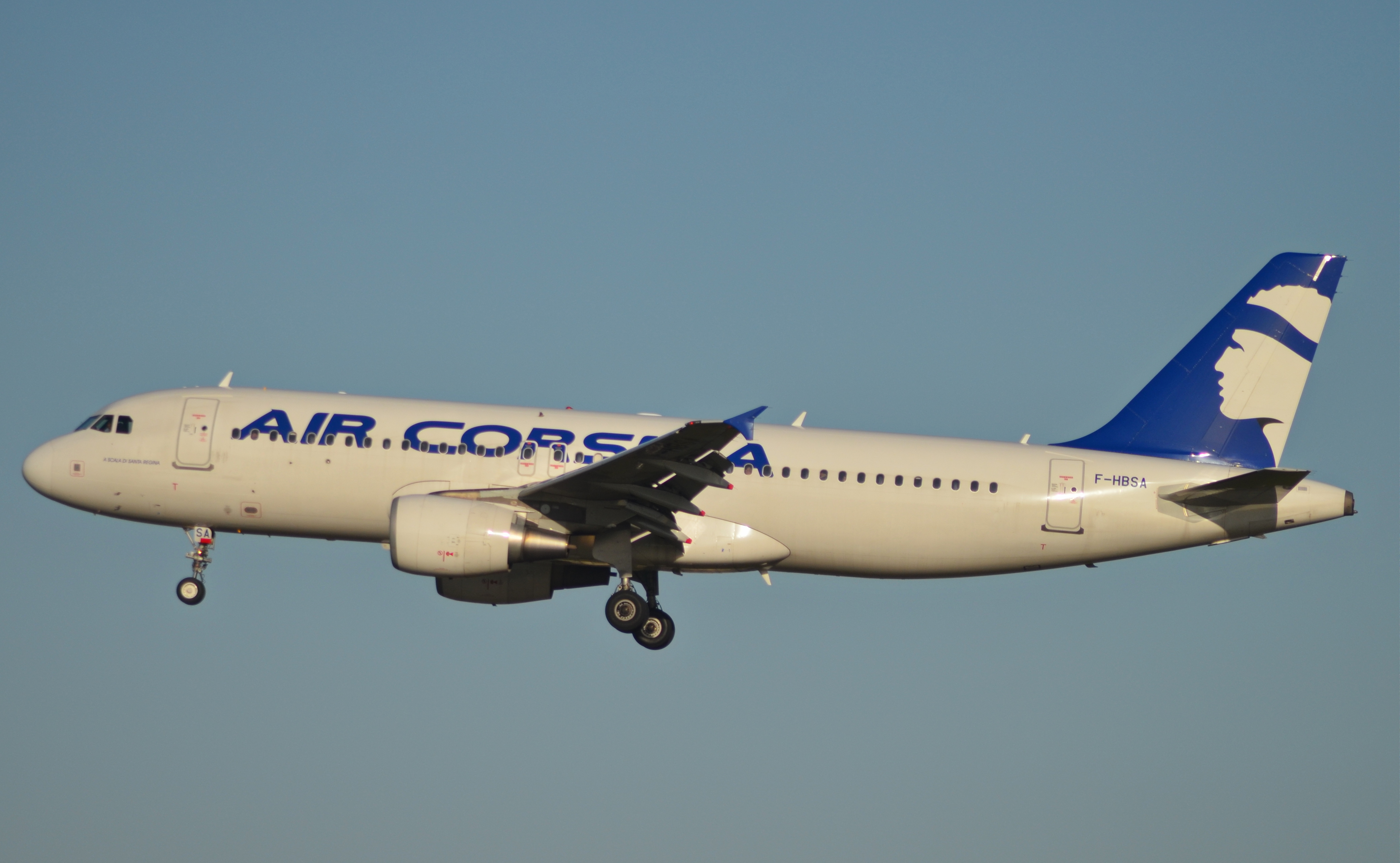 Airbus A320-216 Air Corsica F-HBSA